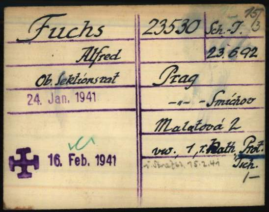 Registration card of Alfred Fuchs as a prisoner at Dachau Nazi Concentration Camp. The stamped cross signals the day of his death.